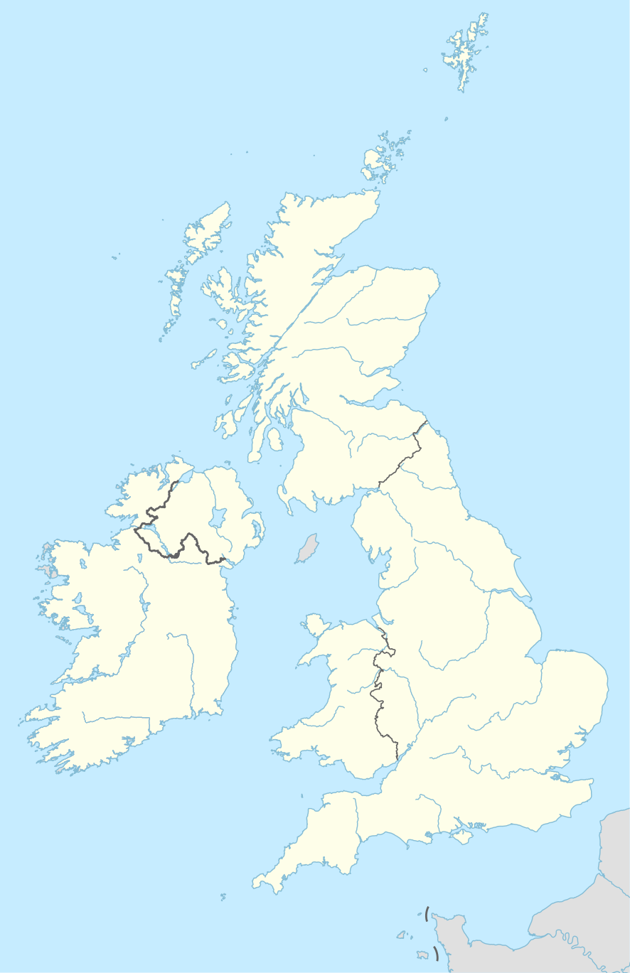 Map of United Kingdom and Ireland